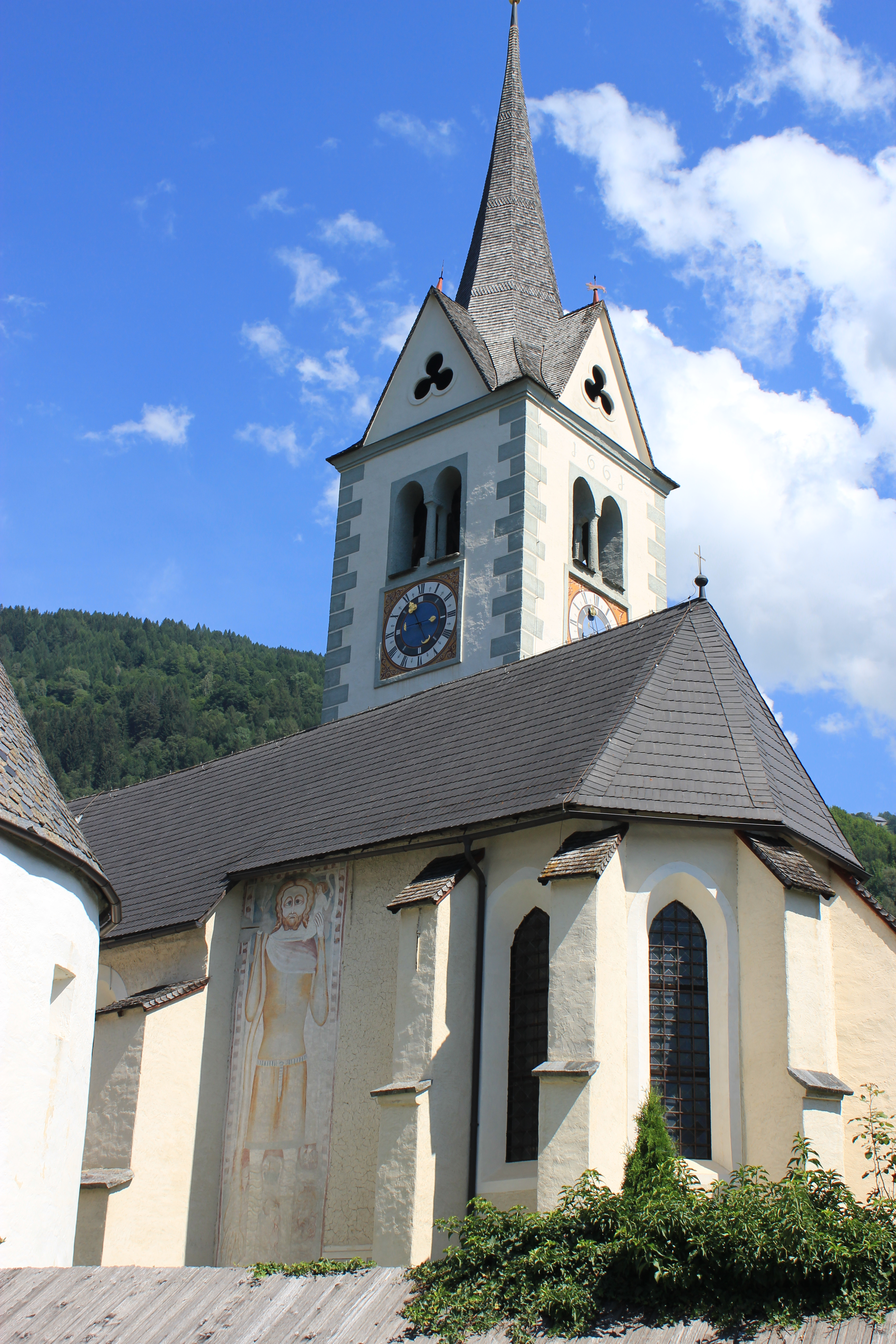 Parish church Malta in the community Malta